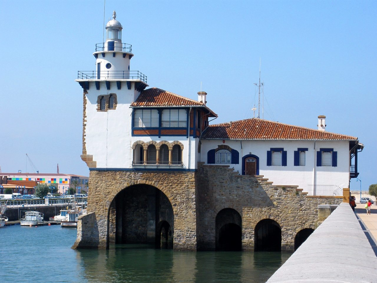 Casa de Náufragos y Faro de Arriluze (Muelle de Arriluze), en Neguri, Gecho (Vizcaya)